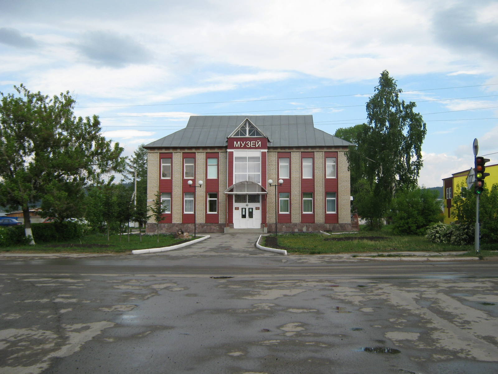 Beloretsk homeland museum